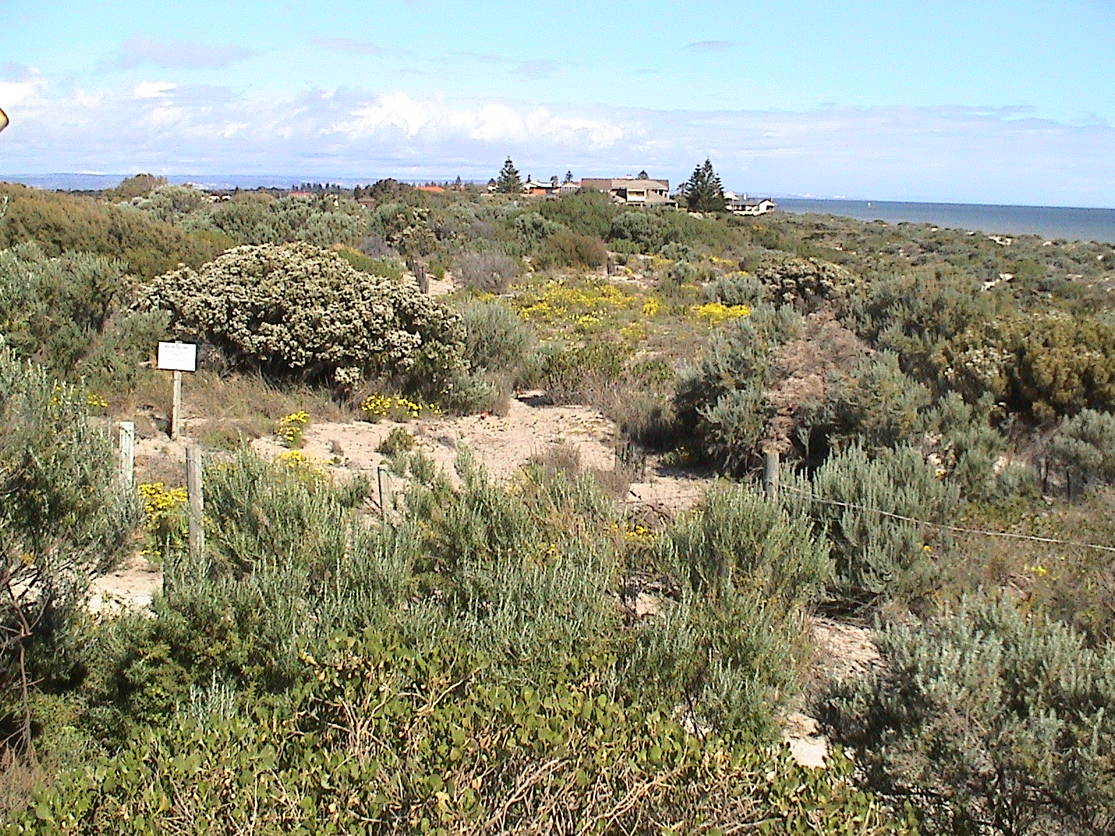 Tennyson Dunes, looking South from the viewing platform